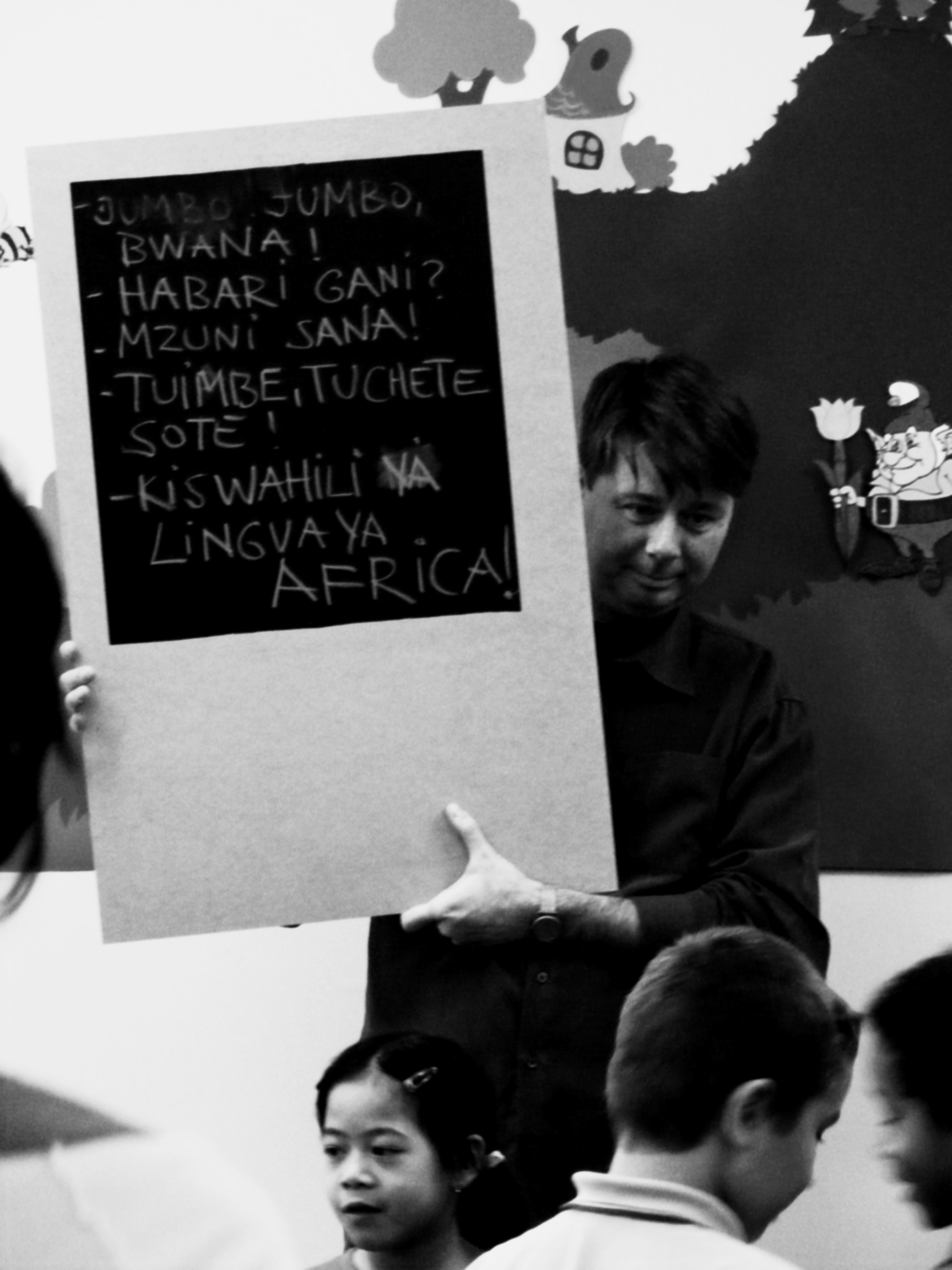 This is an image with the theme "Play" from: Nigeria